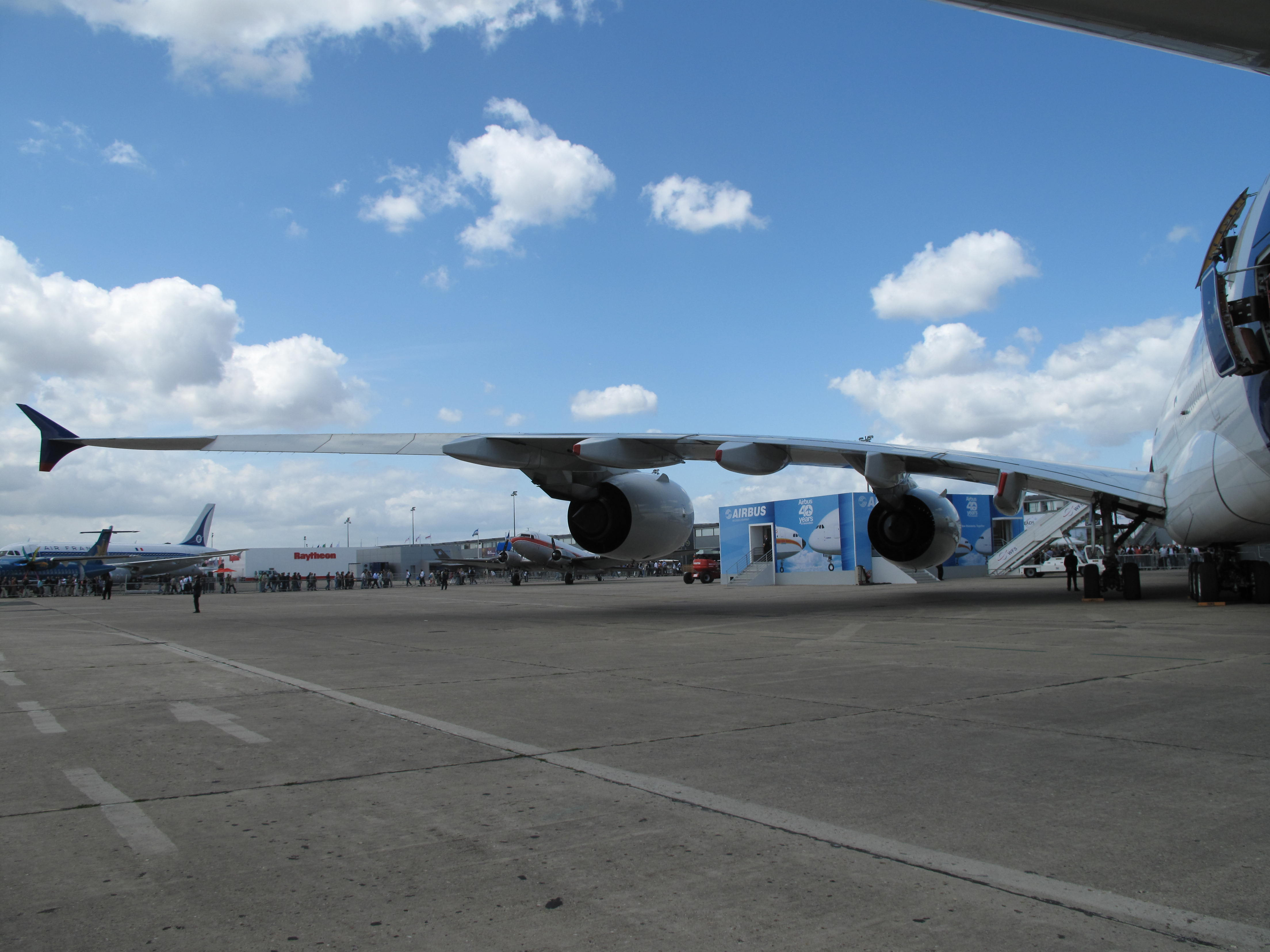 Wing of an Airbus A380 at the Paris Air Show 2009